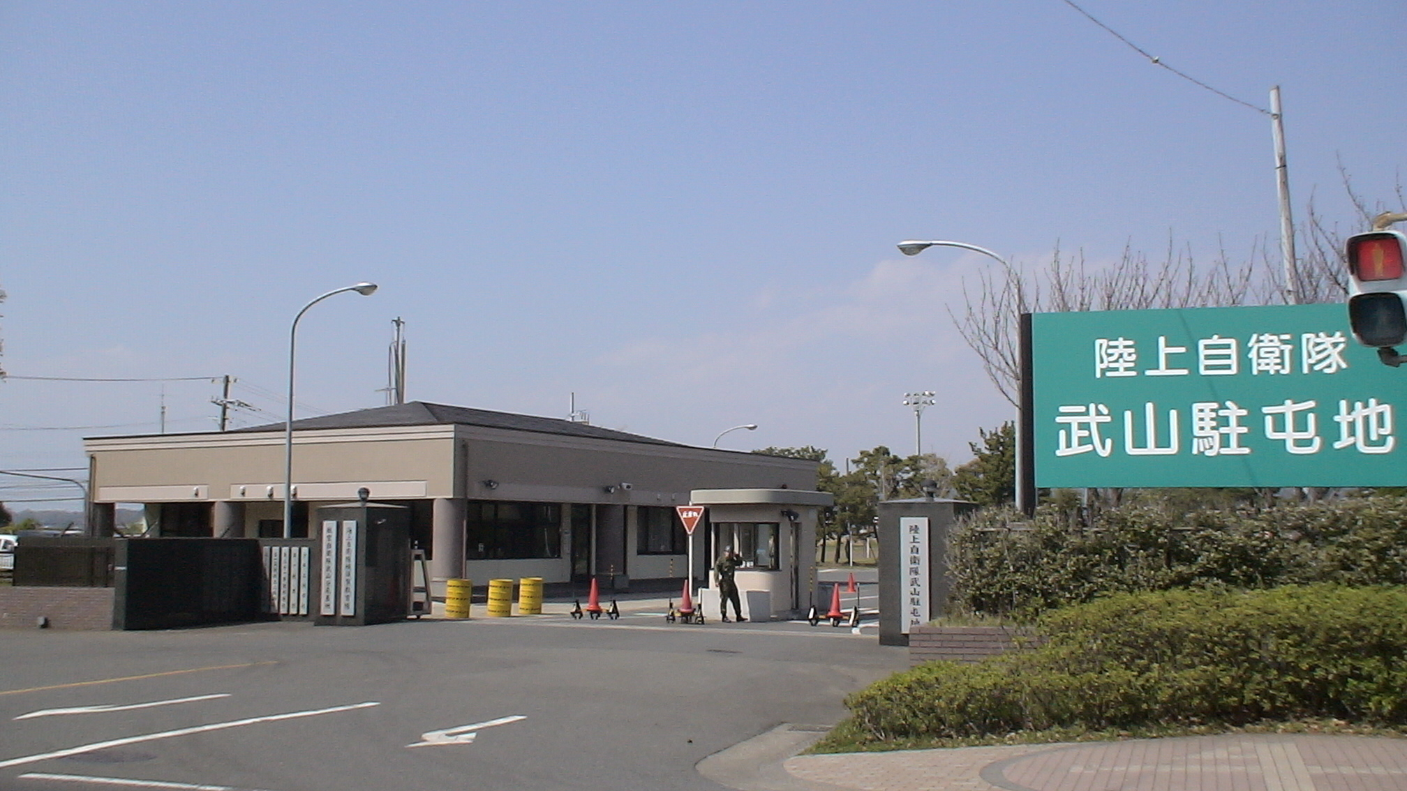 JGSDF Camp takeyama,main gate